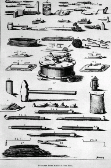 Title: Burglars Tools Found in the Bank. Pagination: vol.XI, no. 1, 4. Subject: Burglary. Record: 1717